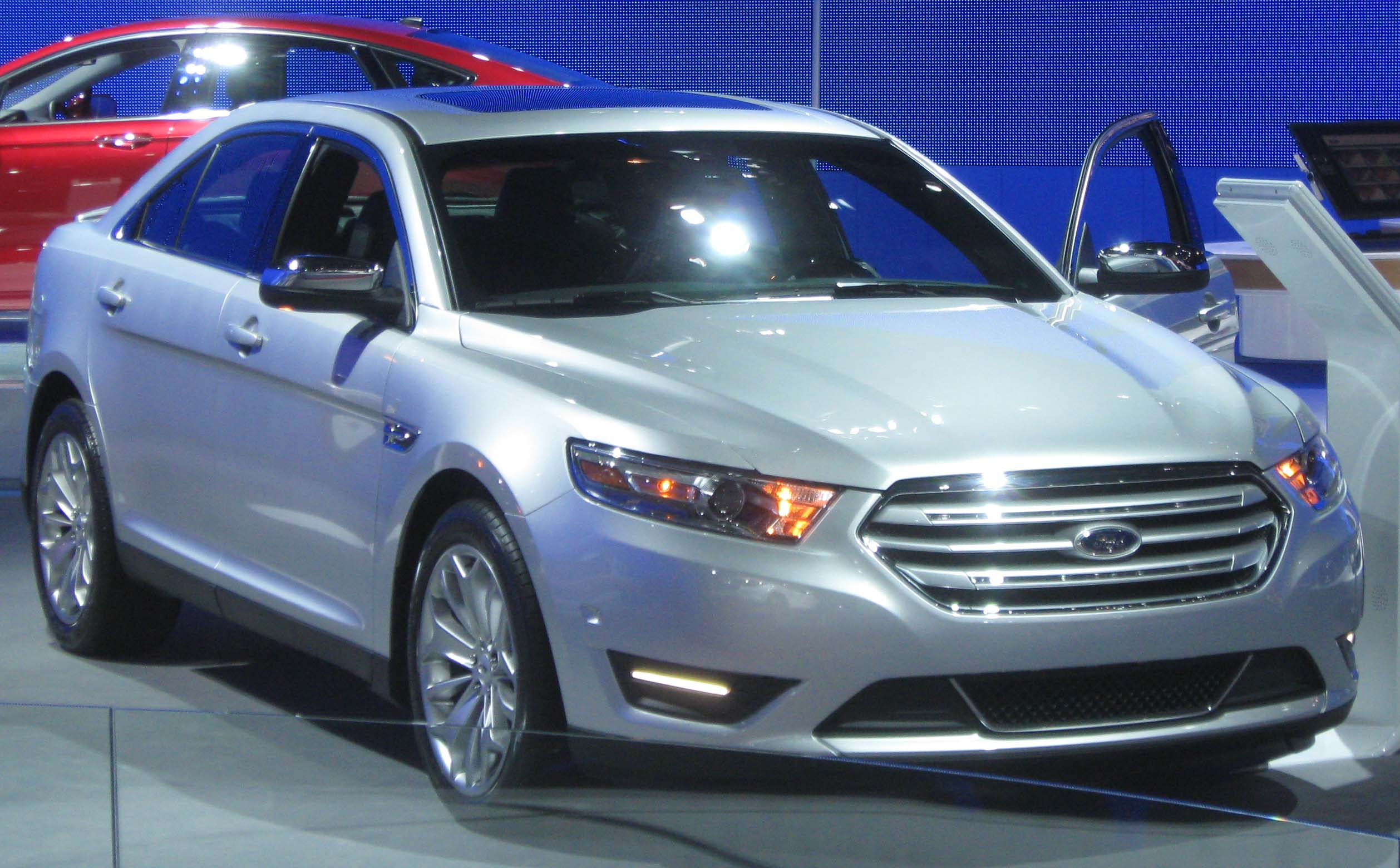 2013 Ford Taurus photographed at the 2012 New York International Auto Show.